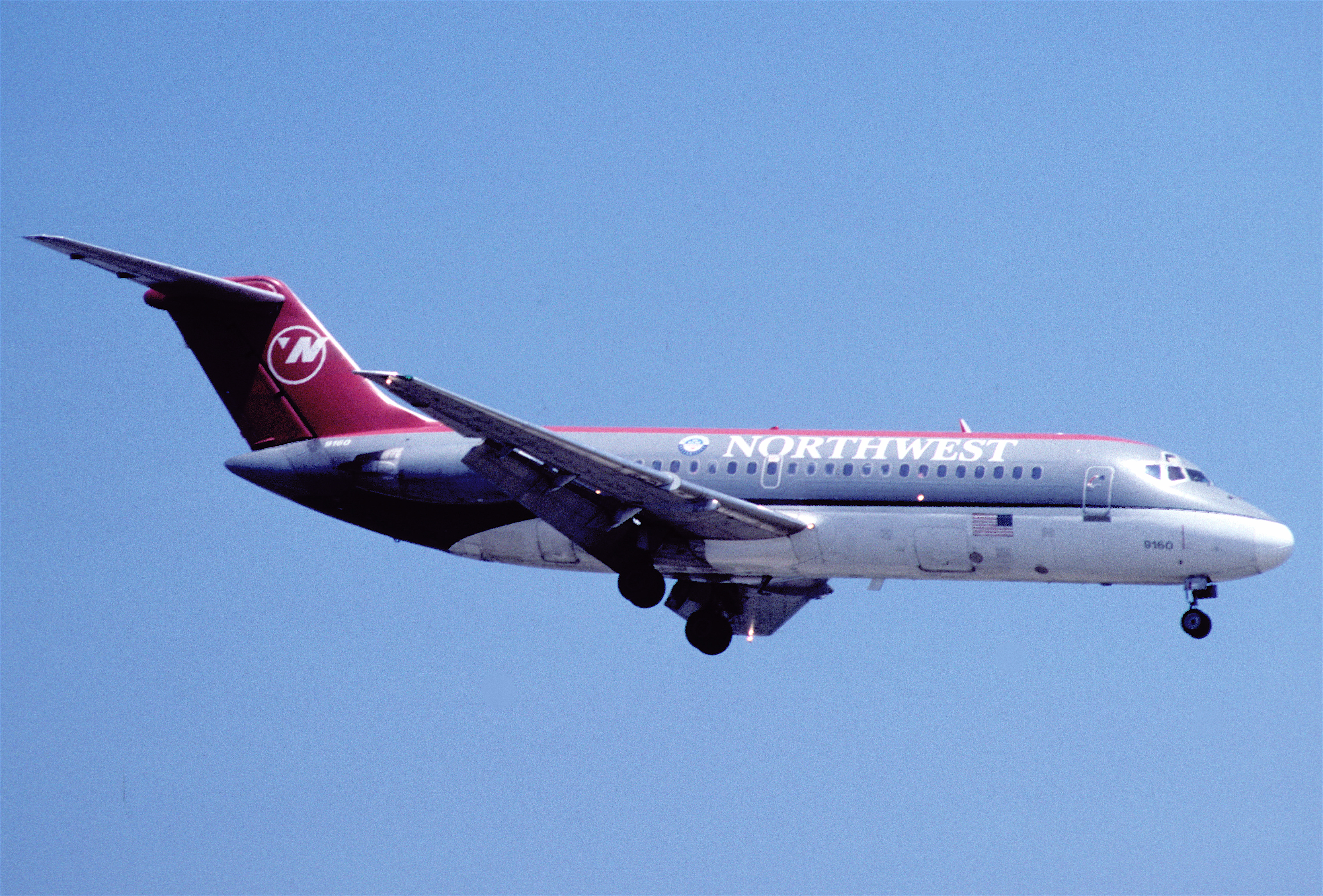 Northwest Airlines DC-9-14; N8903E, May 1995